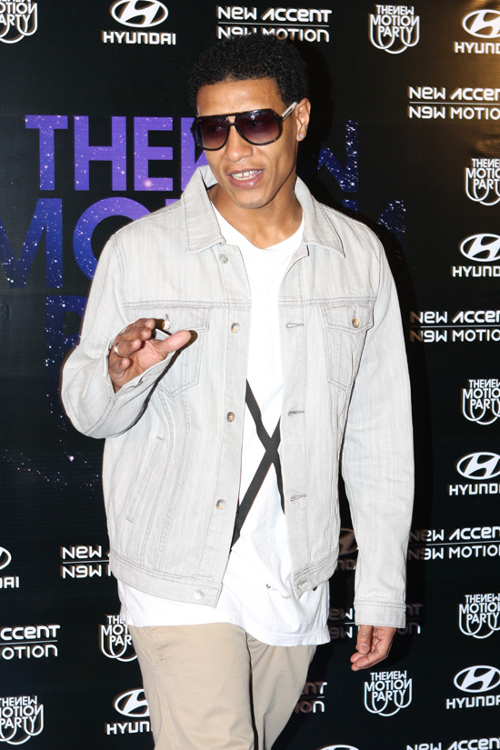 Marvin Priest New Motion Party At Luna Park Sydney, by Eva Rinaldi In the latest of big music gigs to hit Sydney the New Motion Party has gone off with a bang. We're pleased to report that it was not a train wreck, nor a car accident (sponsored by Hyundai), as if you could have missed the advertising. Tonight's celebrity list included included Marvin Priest (son of Maxi) and Aloe Blacc. Make no mistake, Marvin was there to perform to the best of his ability. He's currently got two of the biggest club anthems on the ARIA charts and you might have guessed that he's the son of reggae legend Maxi Priest. It's the first time the London-born legend in the making has been to Luna Park. He joined hip hop-jazz artist Aloe Blacc ('I Need A Dollar'). "I’m excited - I’ve got a new summer anthem to play," Priest said. We were pleased to find out that Priest has called Australia home for the past two years, soaking it up when he on tour with his famous father. "I love how relaxed and chilled out Aussies are - they’re just mad cool," he said. Priest performs what can be described as soul-infused urban club anthems. He's set to release his debut album Beats & Blips via Island Records on 25th November. His first single was 'Own This Club' and it climaxed #6 on the ARIA singles chart and went double platinum. Probed about his success Priest said "I’m blown away by it, I’m happy and excited but it’s what I’ve always wanted, I’ve put in my years and I need to do music." Priest is happy to see that Australia is really starting to embrace high quality urban dance producers. Well done to everyone involved with the New Motion Party, and we look forward to continuing to track the success of the artists who performed tonight. Websites Luna Park Sydney The Crystal Palace Aloe Blacc Hyundi (Australia) Eva Rinaldi Photography Eva Rinaldi Photography Flickr Splash News